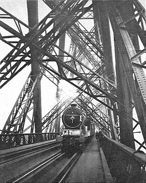 Britain's Biggest Bridge East Coast Express crossing the Forth Bridge, L.N.E.R. Photo: L.&N.E.Ry.